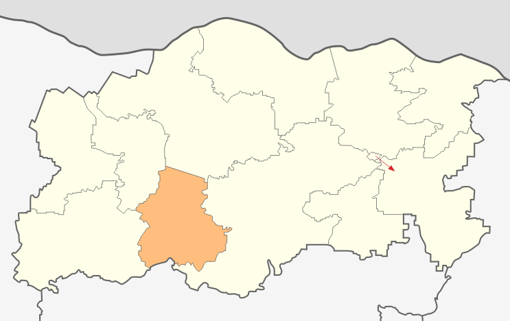 Map of Dolni Dabnik municipality, Pleven Province